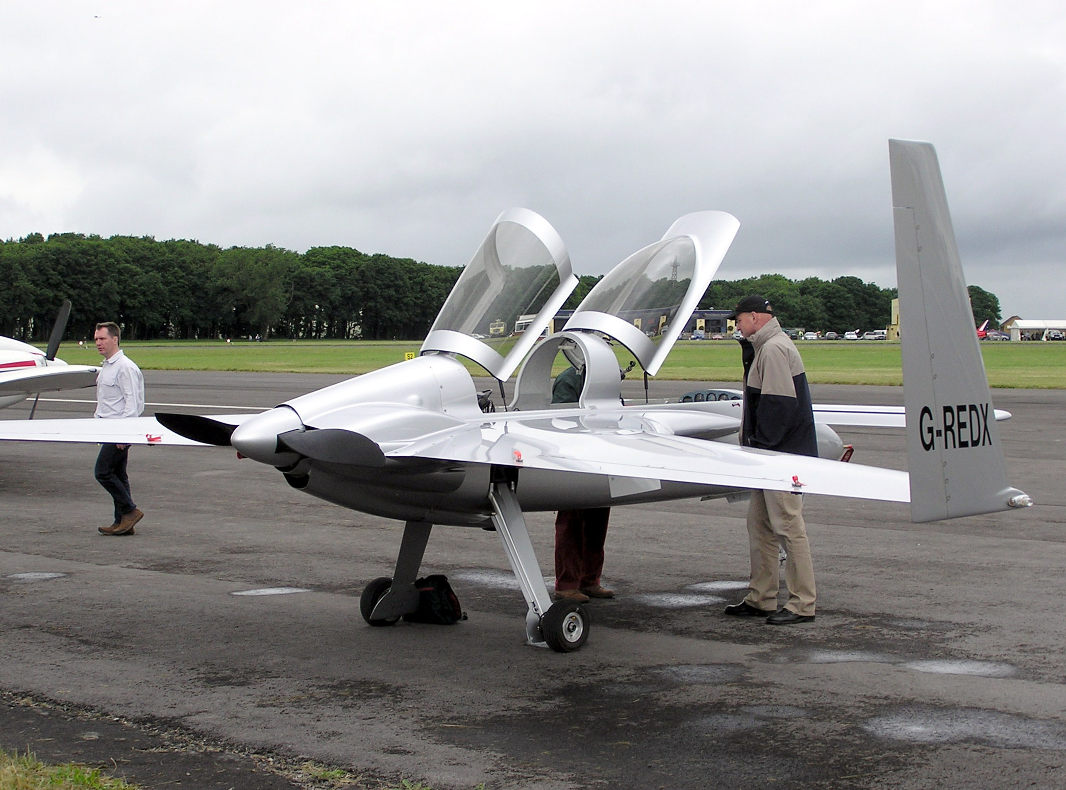 Berkut 360 home-built (UK registration G-REDX) at Kemble Airfield, Gloucestershire, England. The Berkut (pronounced Bear-coot) is a greatly-improved Rutan Long-EZ. Production of the kit of parts was in Santa Monica, California. The first aircraft flew in 1991. Production of the kit ceased in September 2001 because sales were insufficient. Photographed by Adrian Pingstone in July 2005 and placed in the public domain.